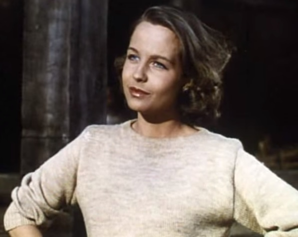 Betty Field in The Shepherd of the Hills - trailer (cropped screenshot)